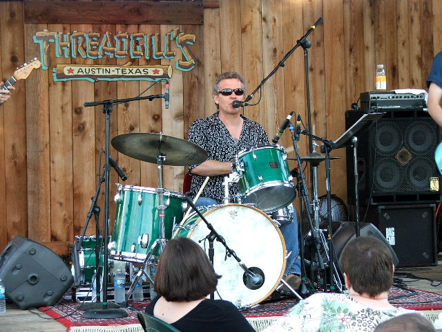 Doyle Bramhall at Threadgill's in Austin, TX. Photo by Ron Baker (2005).